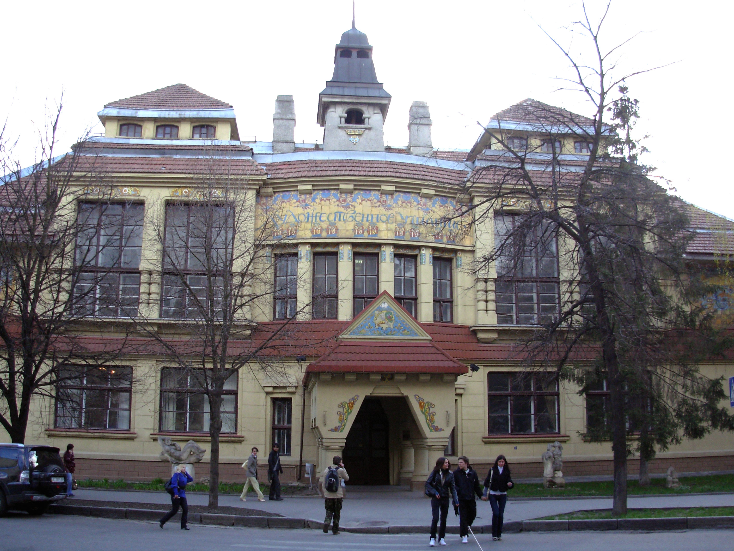 Kharkiv Academy of Design and Arts